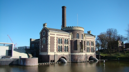 Lijnden